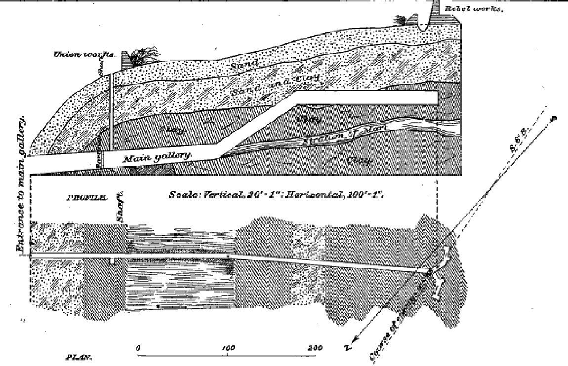 Drawing of the tunnel leading to the mine sprung in front of Petersburg, Va 30 July 1864